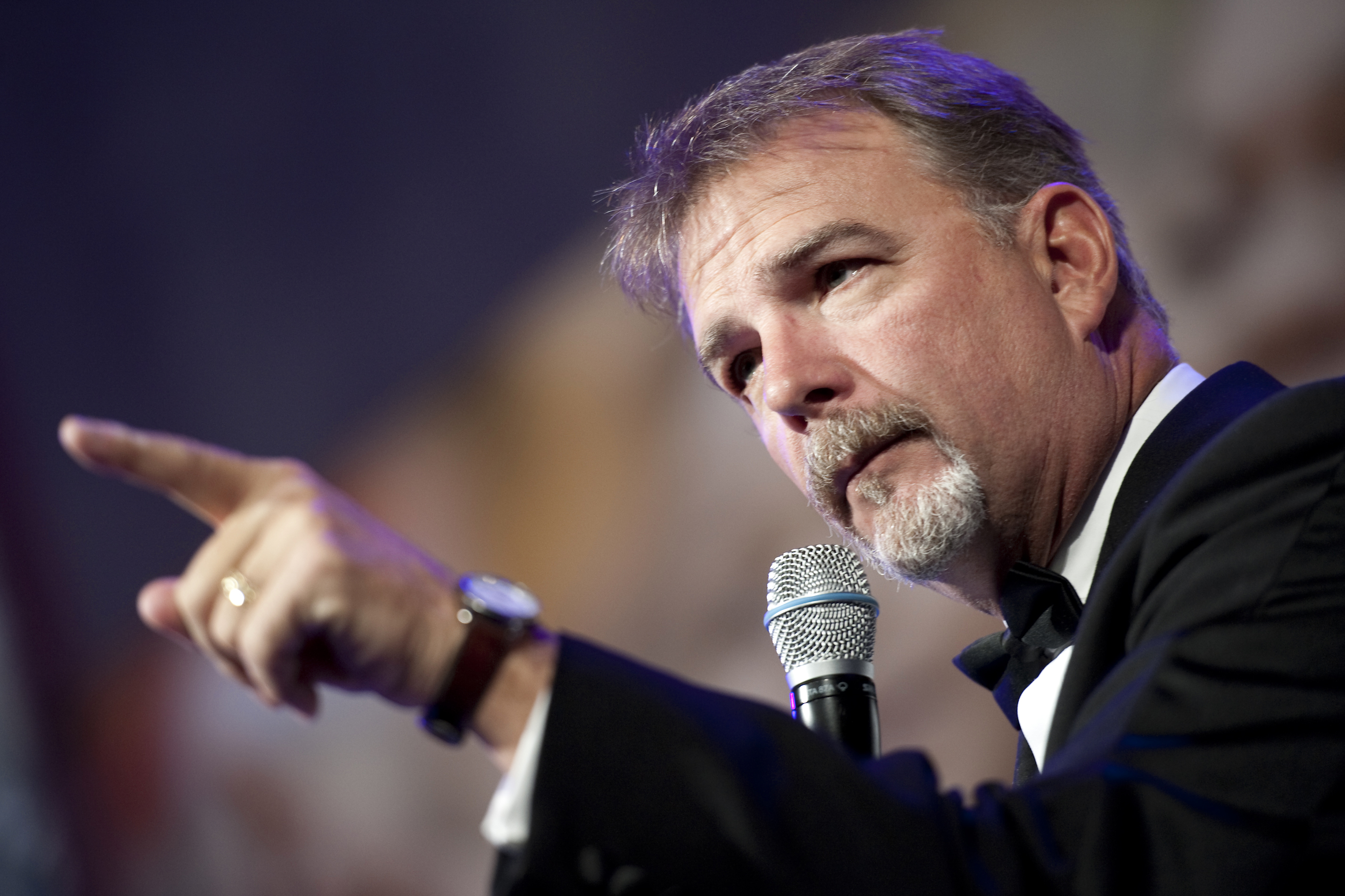 Comedian and actor Bill Engvall performs at the USO Gala in the Marriott Wardman Park Hotel, Washington, D.C., USA, Oct. 7, 2010.